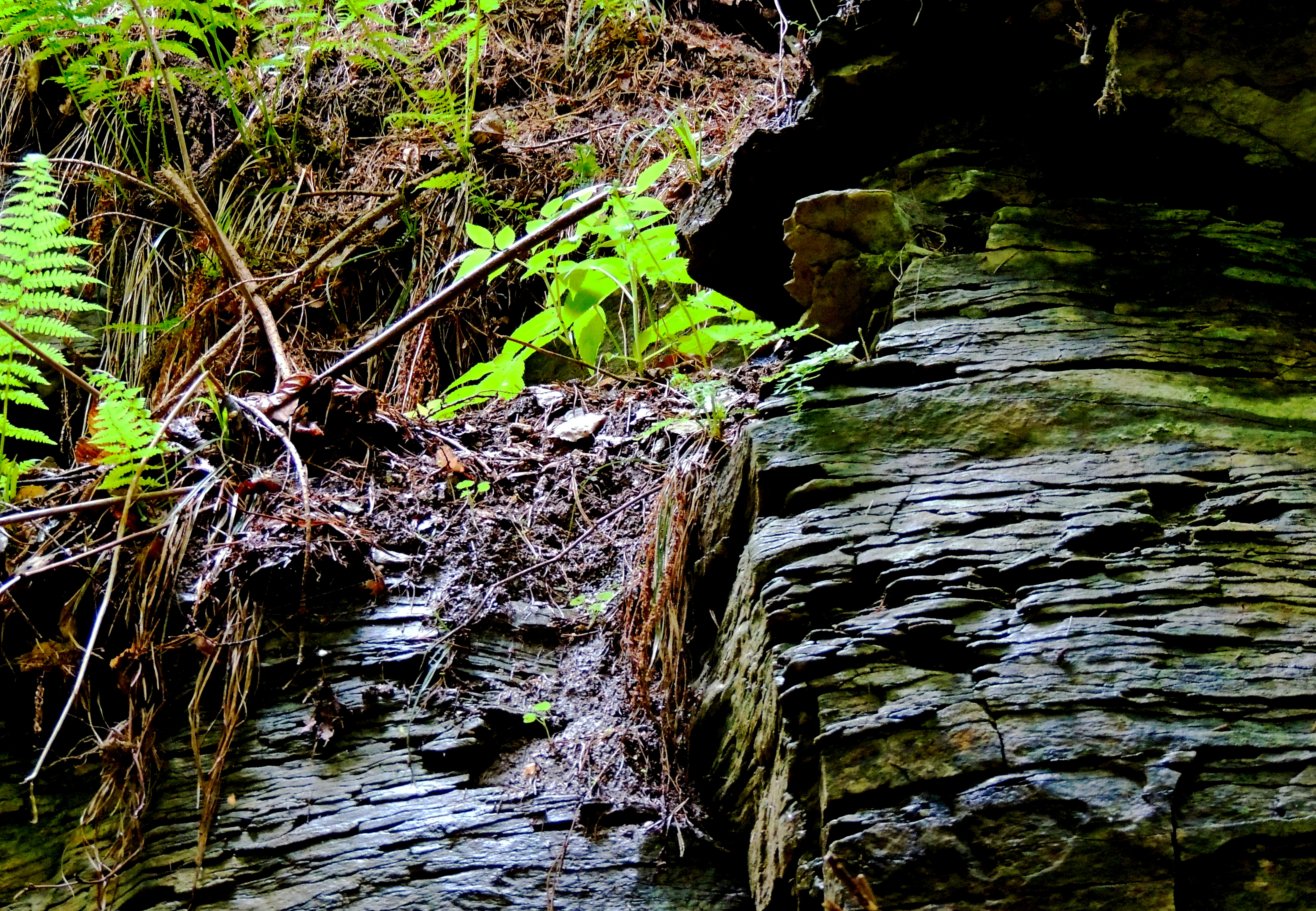 The nature reserve and locality of European importance with named Valley of Anny. An important part of the nature reserve lies in the valley with the local name "near st. Anna" (after St. Anne's Chapel in the valley). Photo location - Czechia, Pardubice Region, Skuteč town.